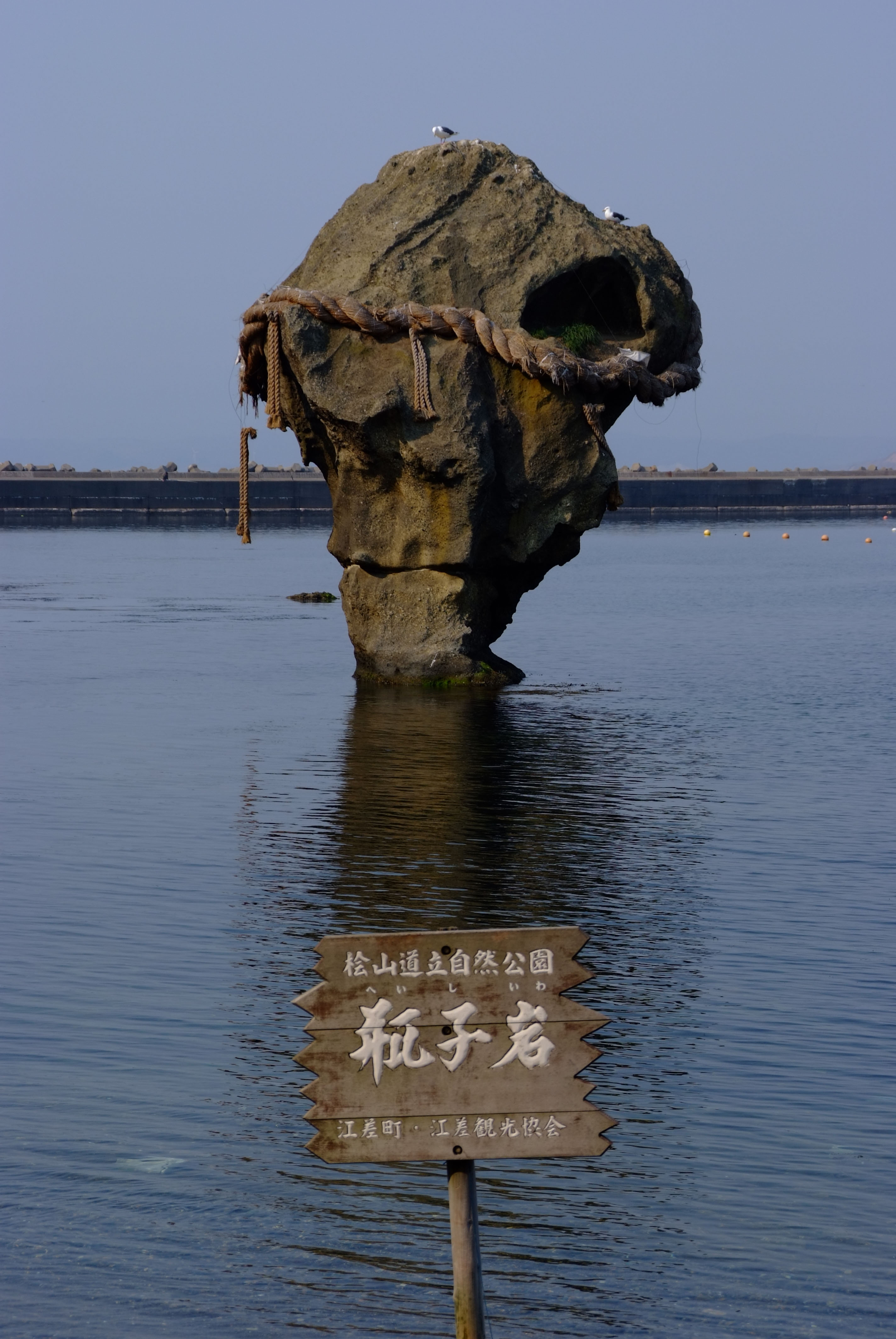 Heishiiwa Mushroom rock in Esashi, Hokkaido, Japan